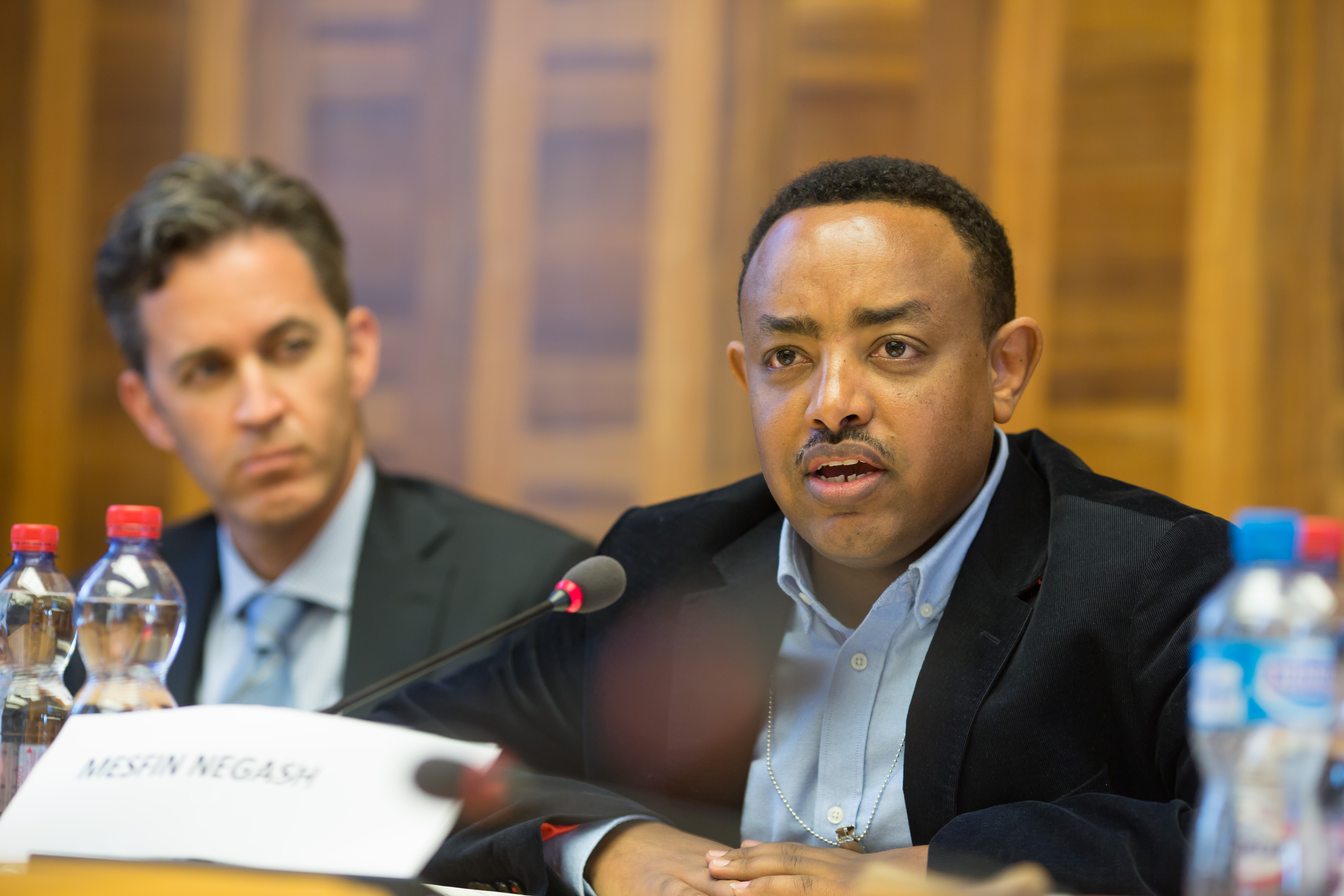 Mesfin Negash (Ethiopia) at the side event on "the misuse of anti-terrorism laws in Africa"